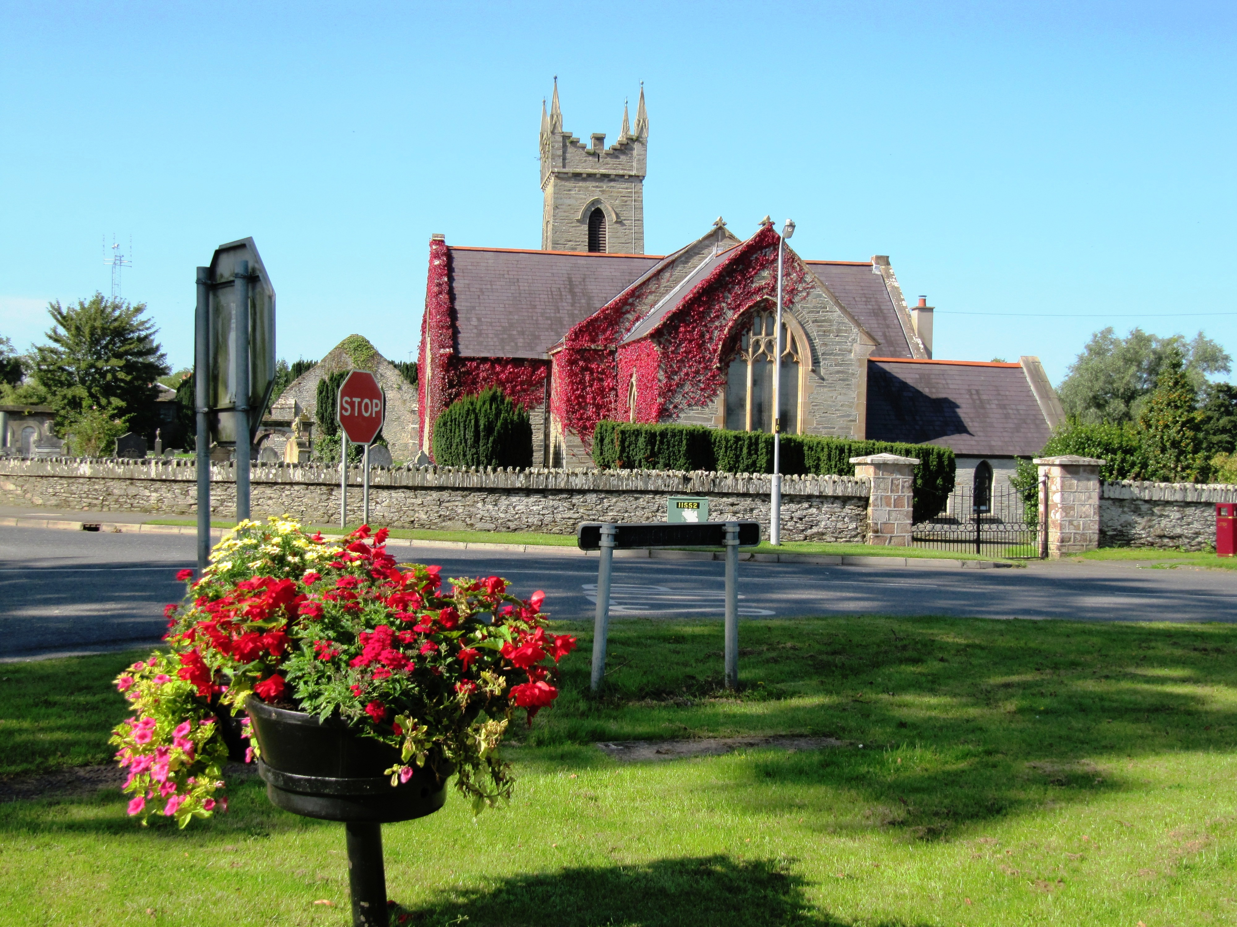 St. Canices Church of Ireland, Main Street, Eglinton, County Londonderry.